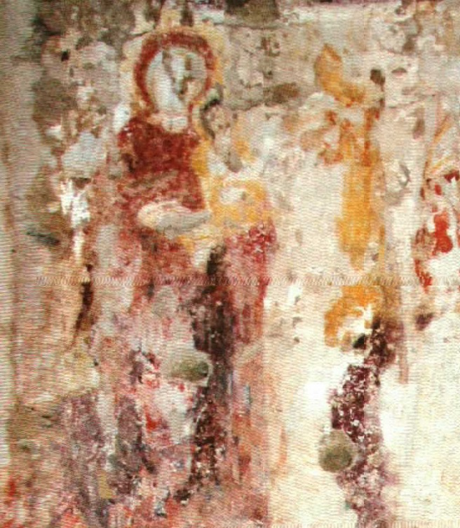 Mural from the so-called Throne Hall of Dongola showing Mary holding the Christ Child. The latter reaches out for a date tree.